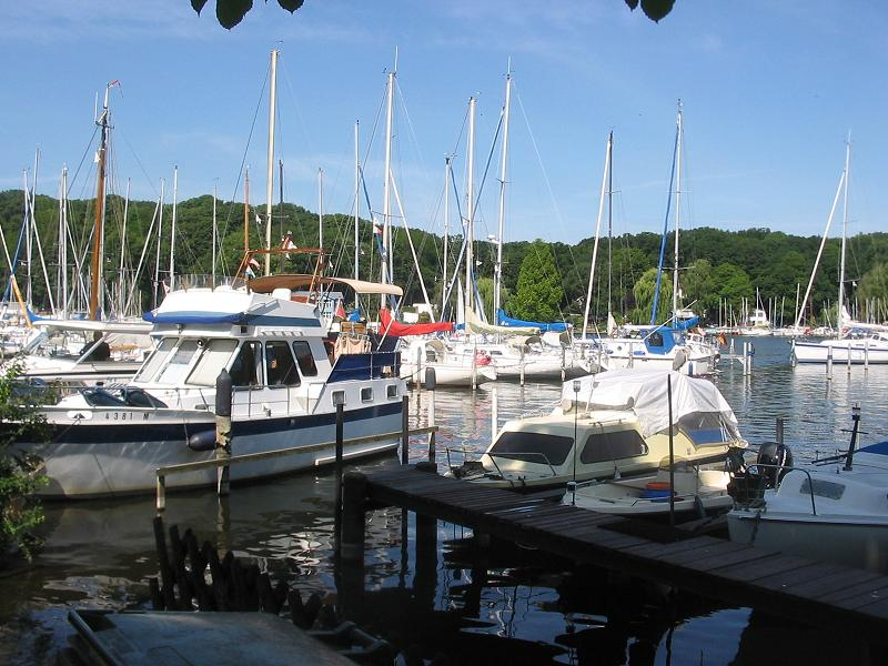 The Stößensee is a lake in Berlin-Wilhelmstadt (Borough Spandau) and Berlin-Westend (Borough Charlottenburg-Wilmersdorf), Germany. The lake is a bay of the river Havel.